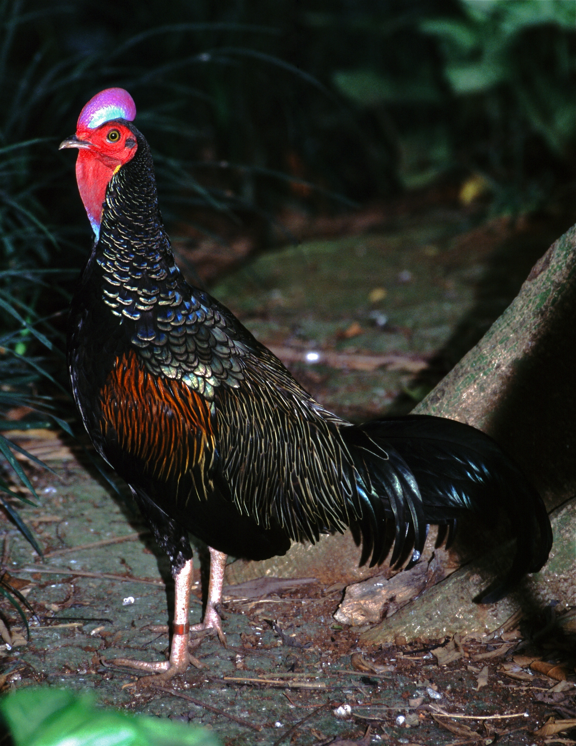 Bird Park, Wisata Bogor, Java, INDONESIA Scanned Slide from 2003